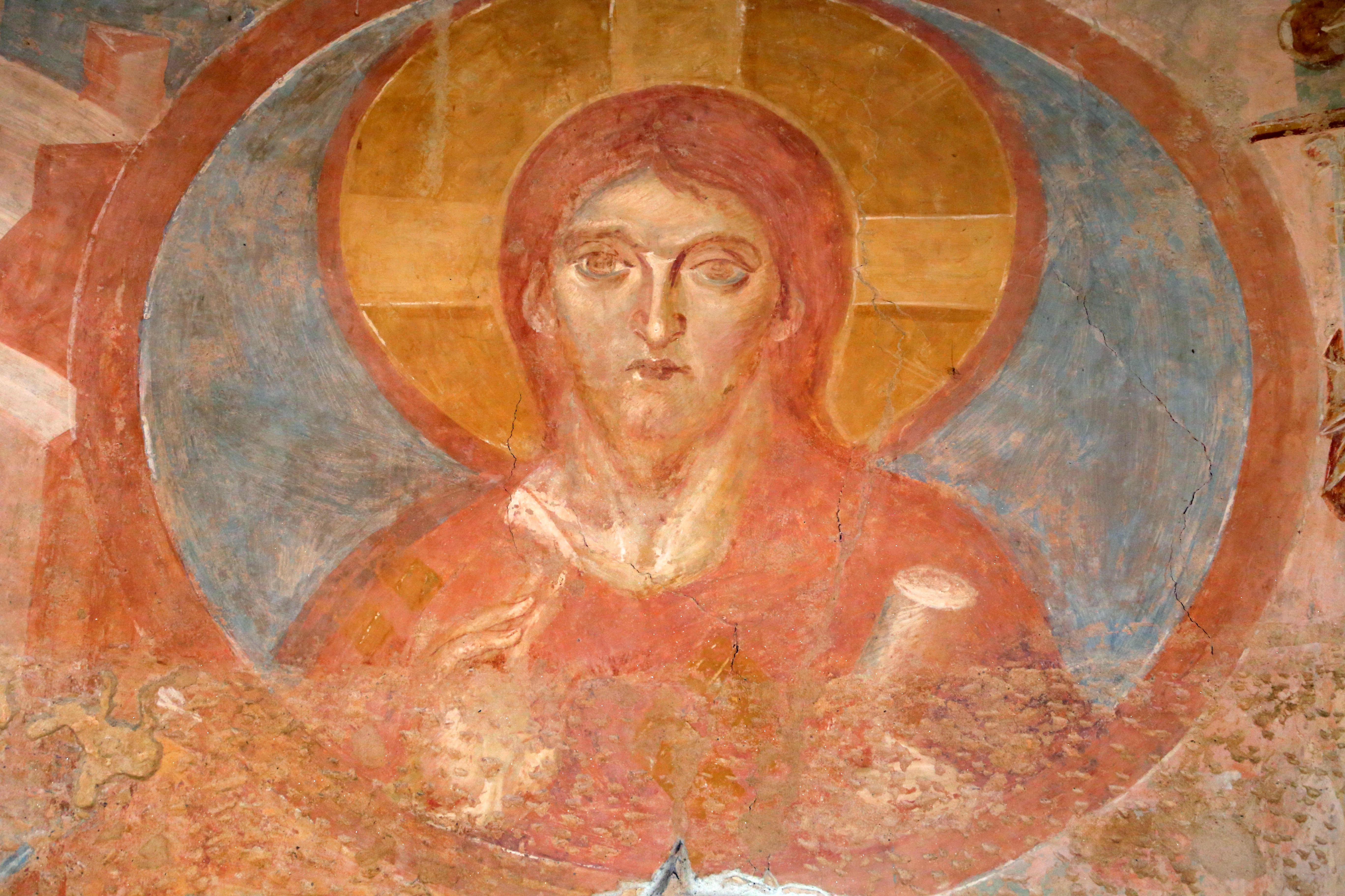 Santa Maria foris portas in Castelseprio